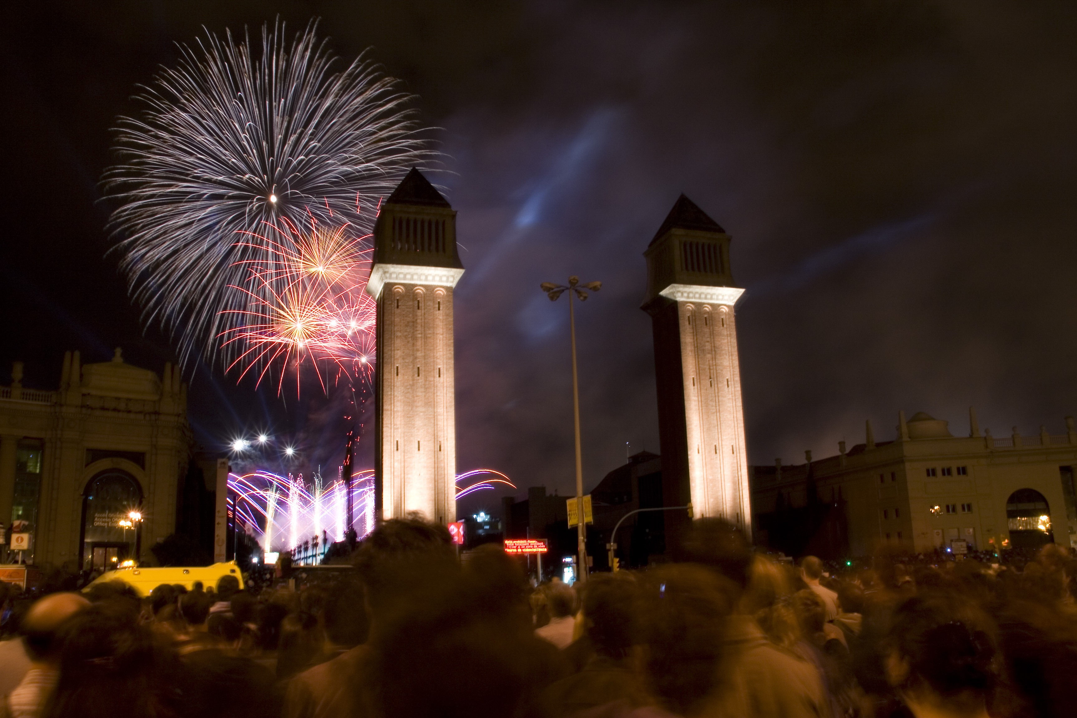 Celebrating La Merce 2008 at Placa Espanya (Barcelona, Spain) with a magnificent fireworks show synchronized with music.